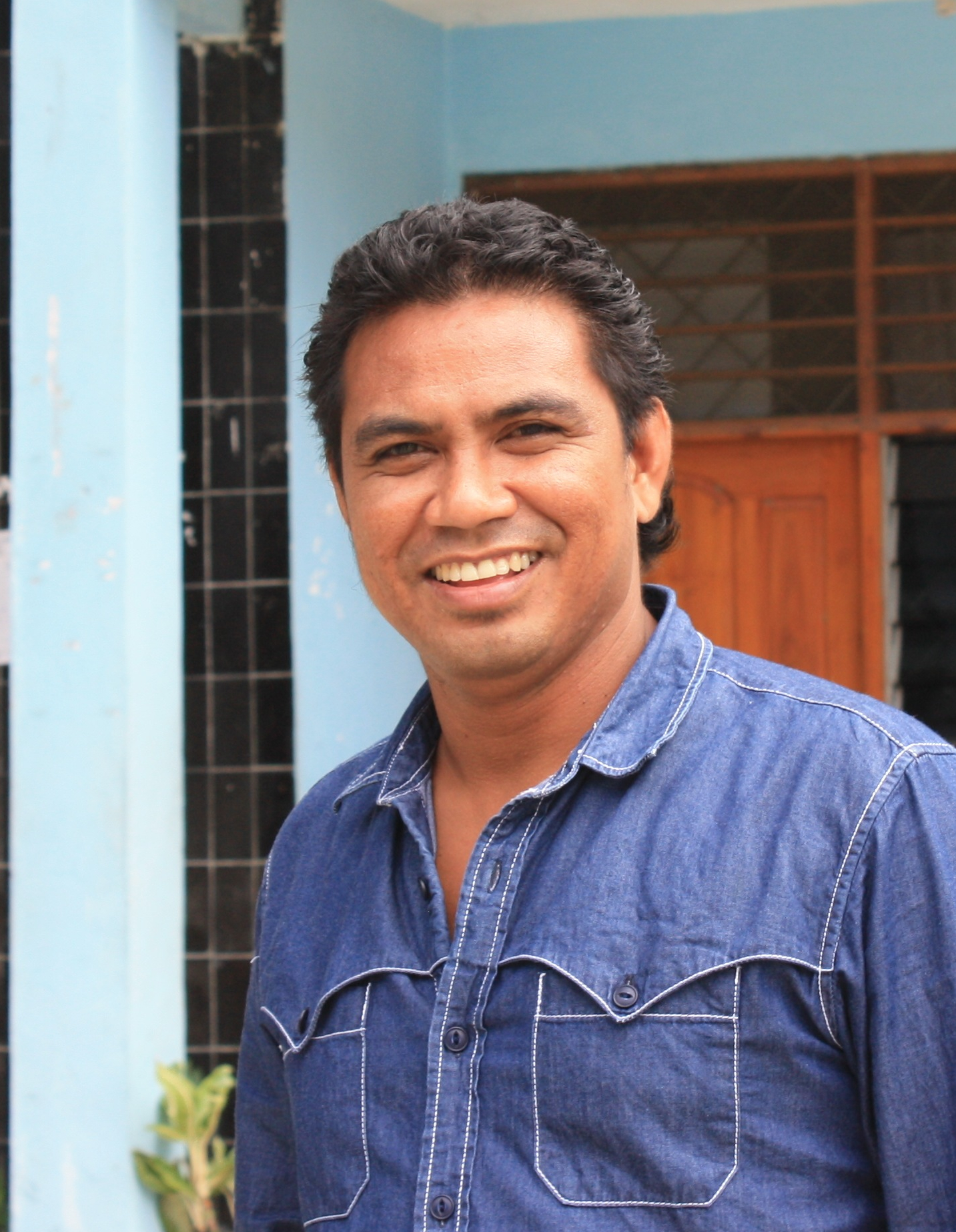 Leovigildo Hornay, former president des National Youth Councils, secretary of State for youth and sports since 2015